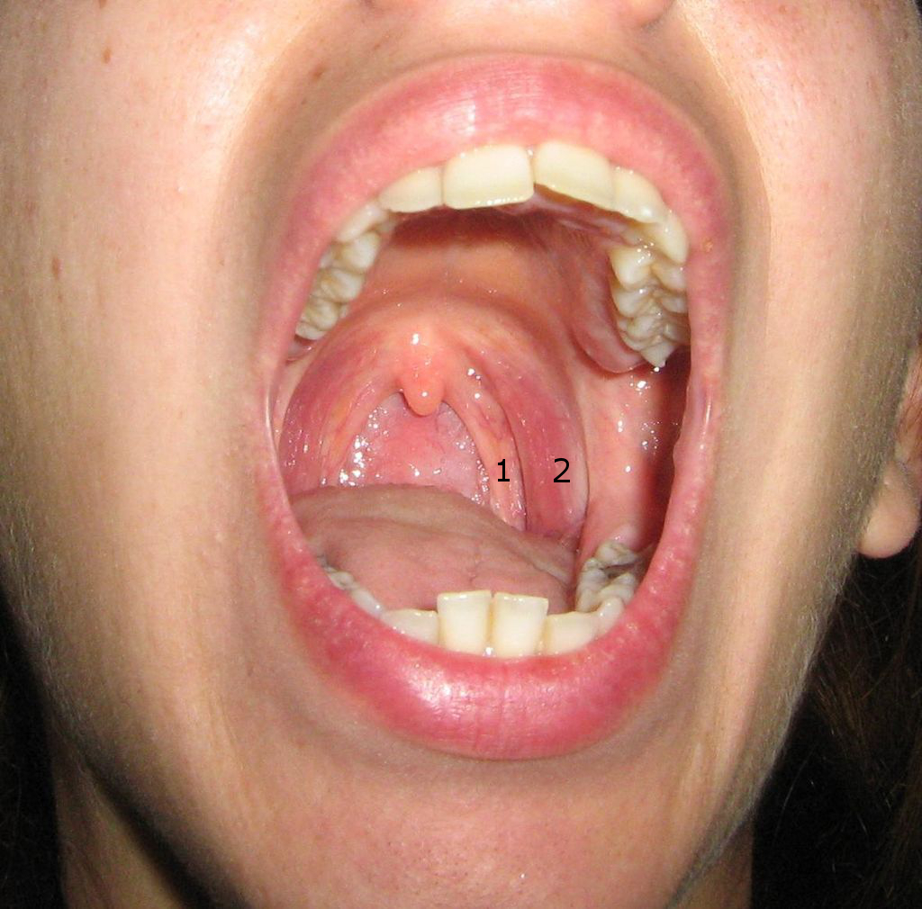 girl's tonsils